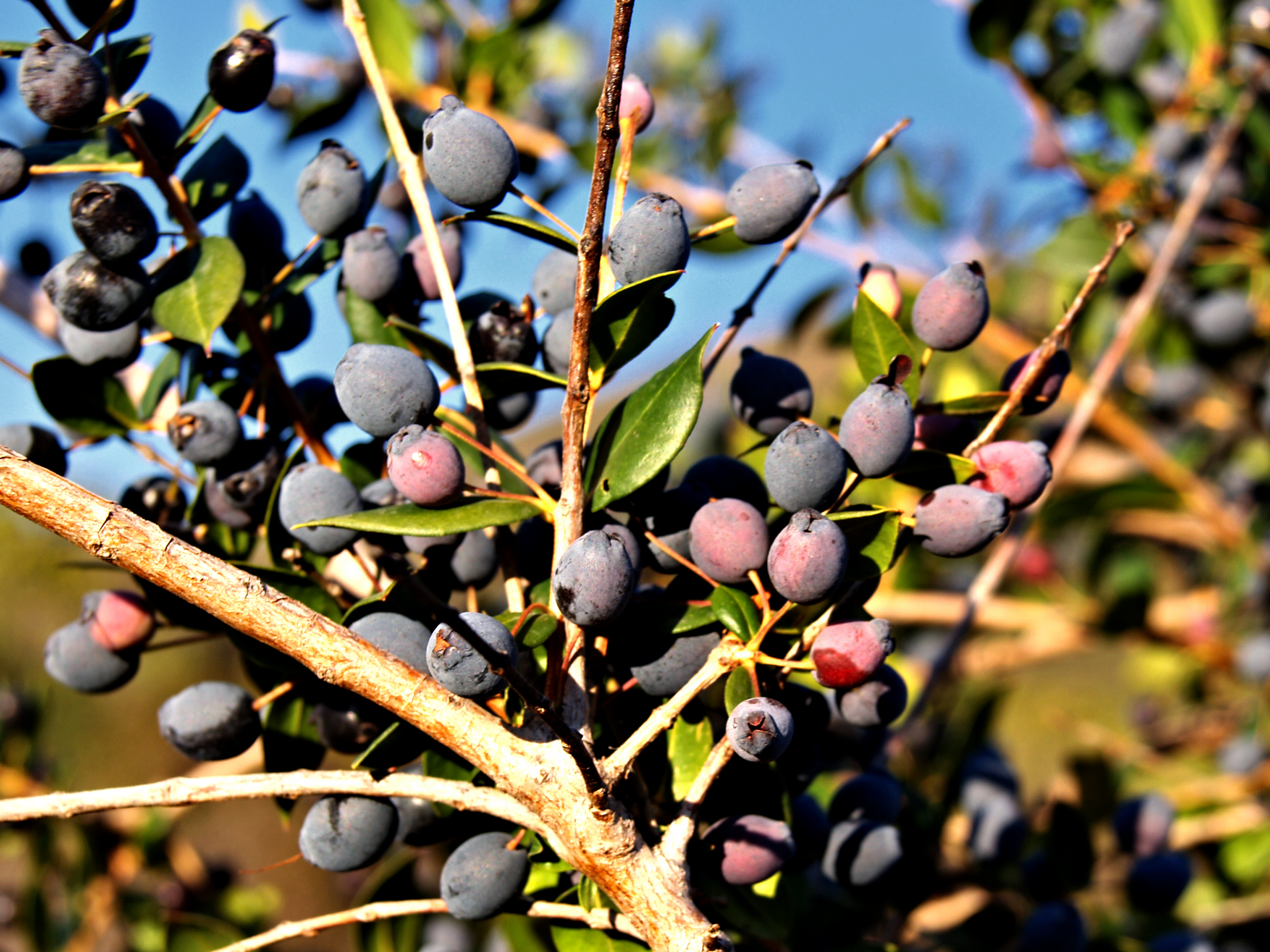 Urtaca (Corsica) - Myrtle berries (Myrtus communis)